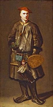 CAROLUS LINNAEUS e Lapponia Redux Aetat. 30 anno 1737 (Written on the drum he is holding). Lifesize portrait of Linnaeus in laplander costume painted at the Hartecamp, home of George Clifford, where he stayed for 2 years: 1 x 2 meters tall. He is holding the plant that Jan Frederik Gronovius named after him: Linnaea borealis.